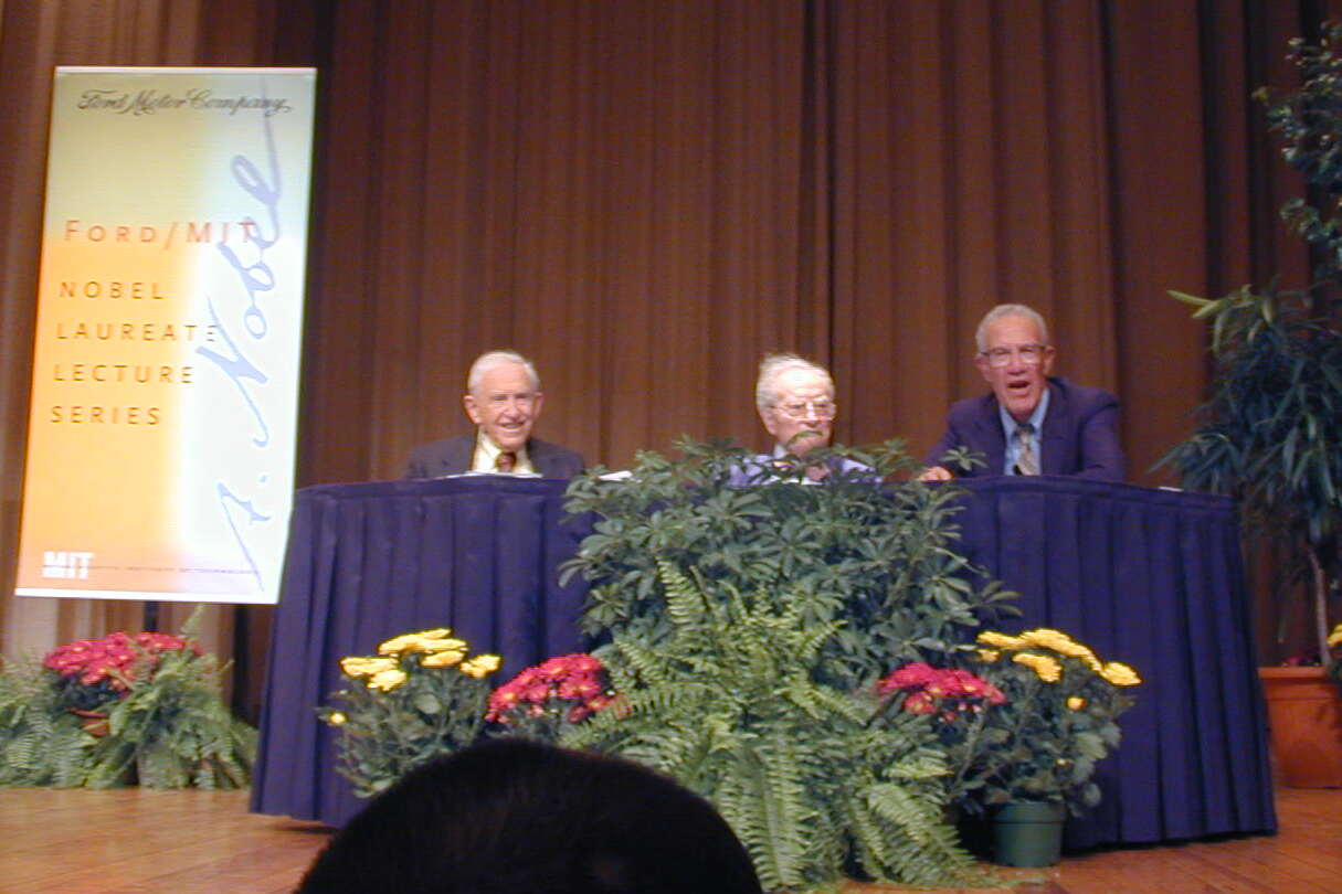 Ford/MIT Nobel Laureate Lecture Series on September 18, 2000 in Kresge Auditorium at the Massachusetts Institute of Technology, Cambridge, Massachusetts, USA. Shown are (from left to right) Franco Modigliani, Paul Samuelson, and Robert Solow.